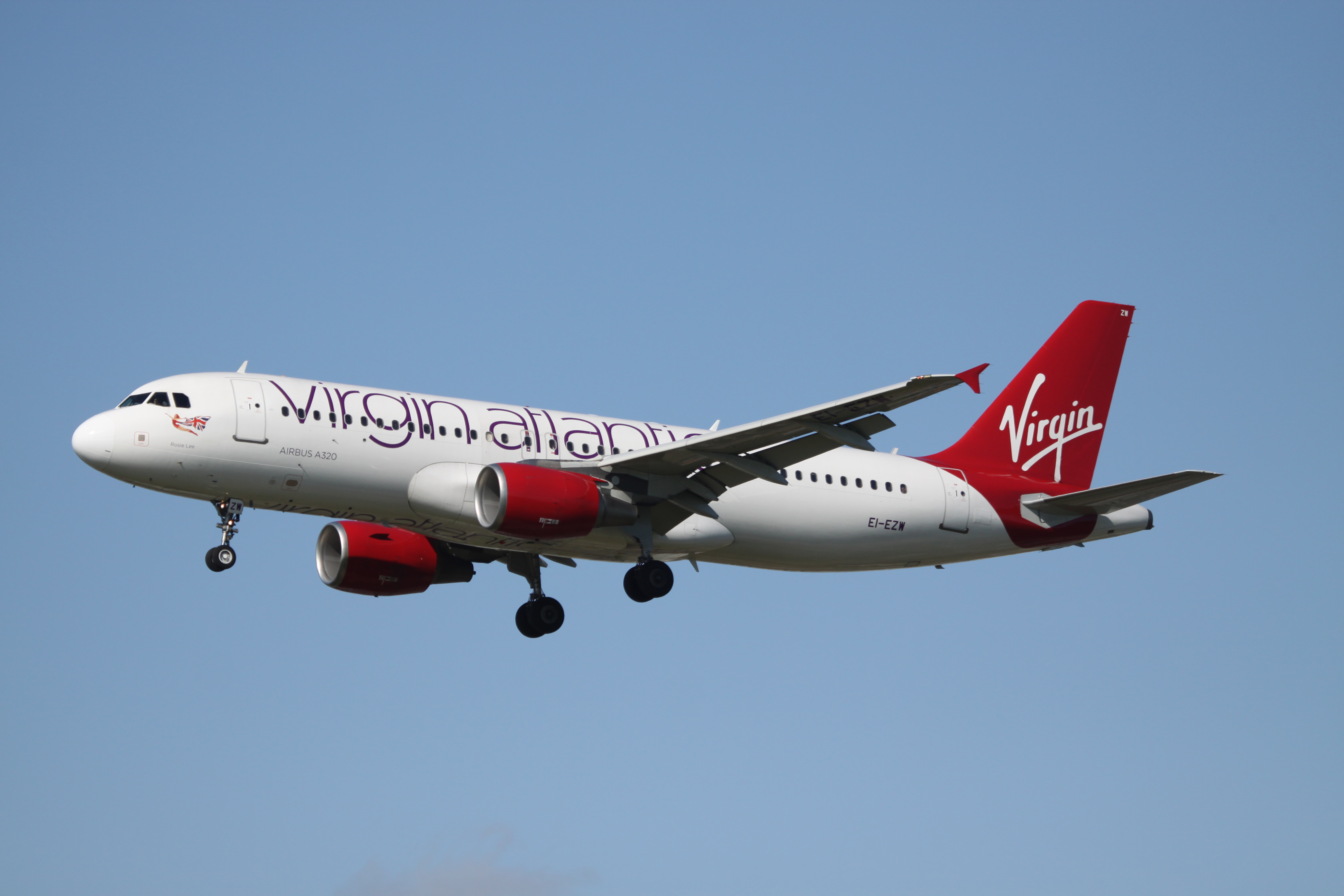 At London Heathrow